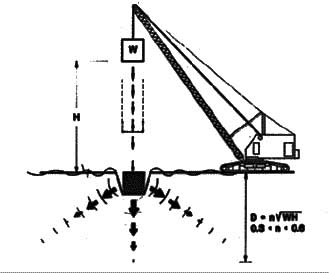 Dynamic compaction set-up from FHWA